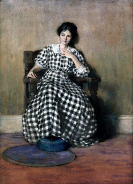 Picture of a young woman seated, possibly the young Georgia O'Keefe.